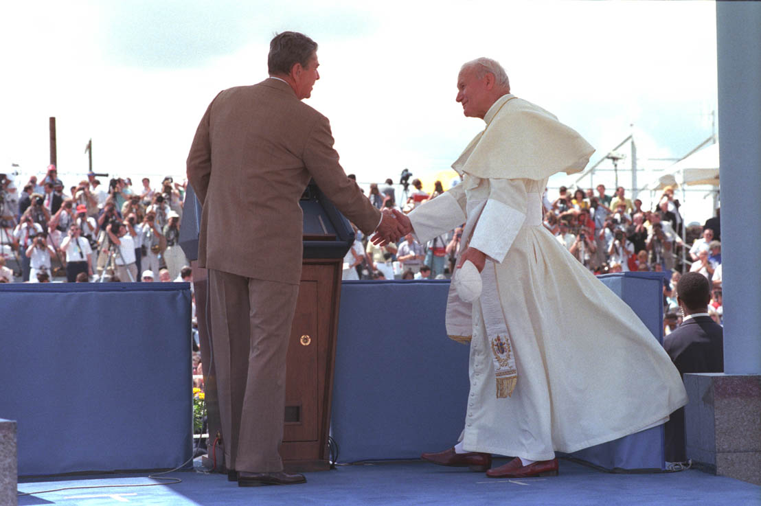 United States President Ronald Reagan shaking hands with Pope John Paul II at Miami airport, Florida, 1987.